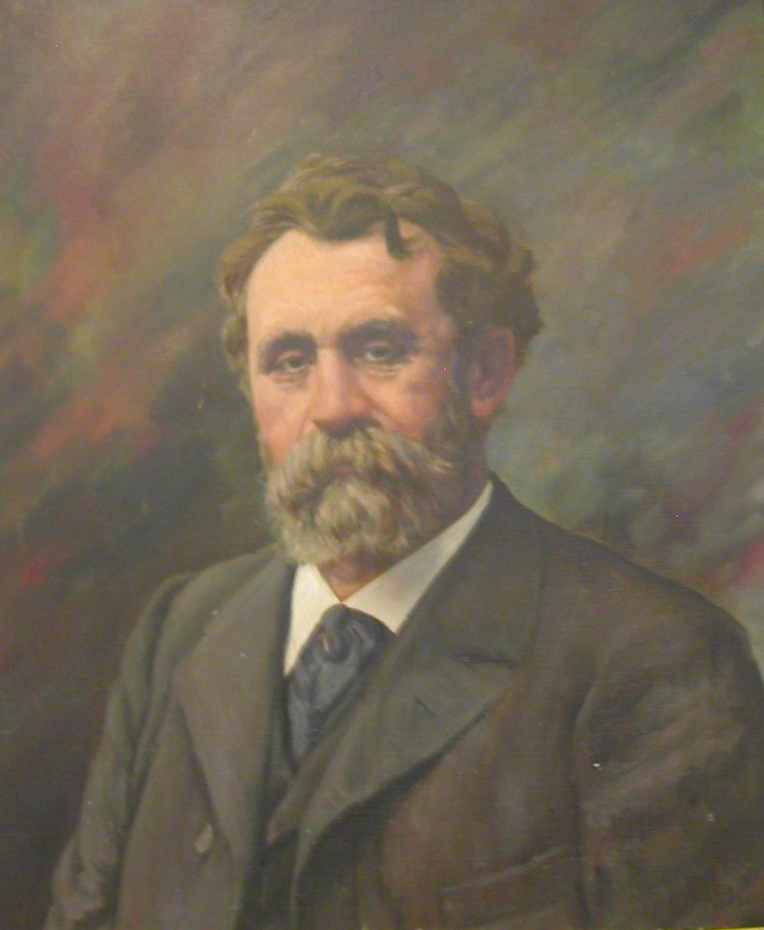 Bernhard Pauss (b. 1839), owner and director of the fashionable private Nissen Girls' School (Nissens Pikeskole), Frogner, Oslo. 19th-century painting in the entrance hall of the Hartvig Nissen High School (the former Nissen Girls' School).